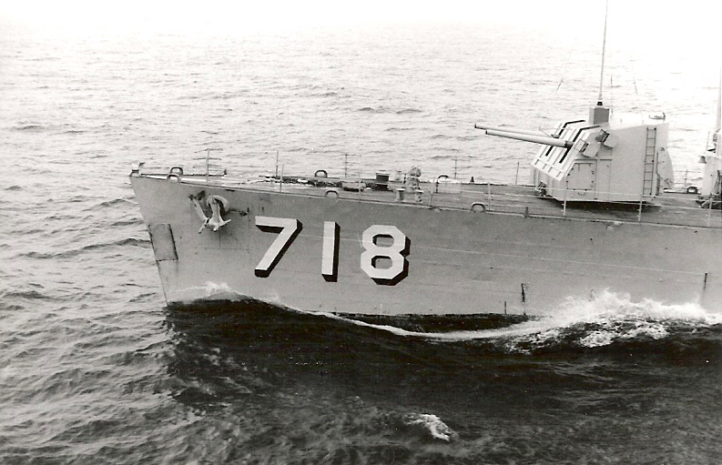 View of the bow of the U.S. Navy destroyer USS Hamner (DD-718), in 1971.